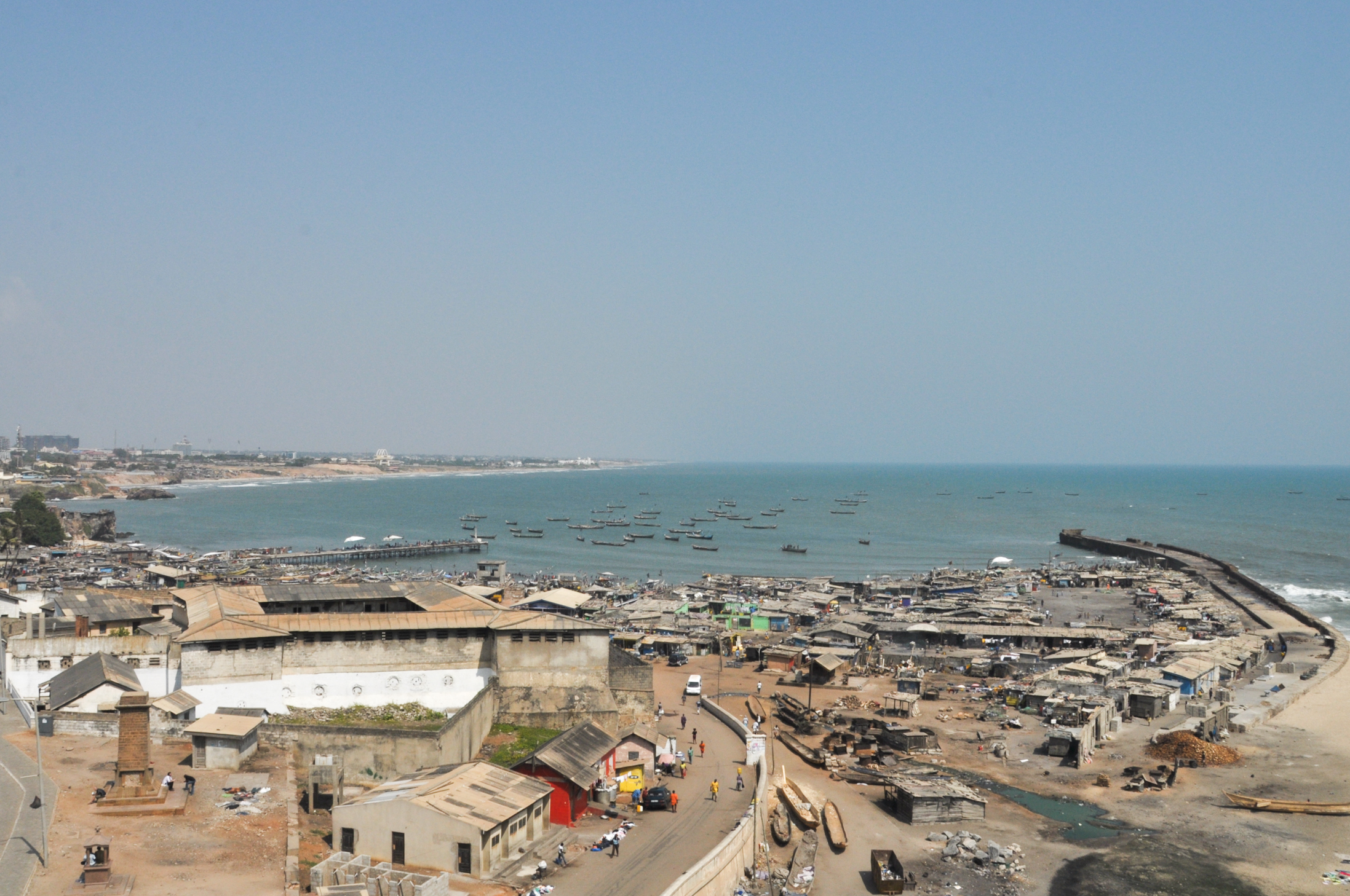 View from the James Town light house, showing the james town fort on the left and the fishing village near by , with Oso castle far away in the horizon